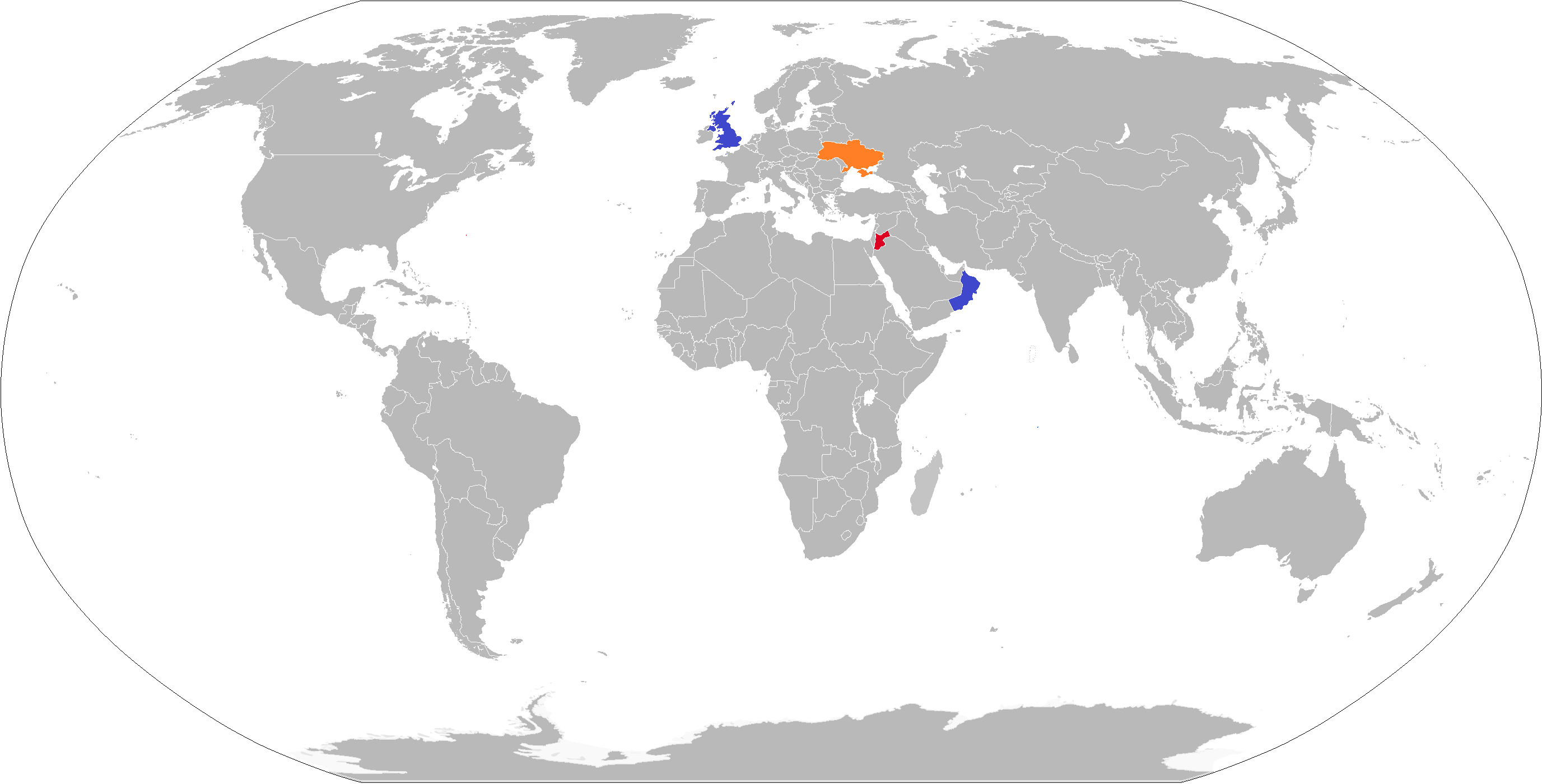 Map of Challenger 1 operators in blue with former operators in red